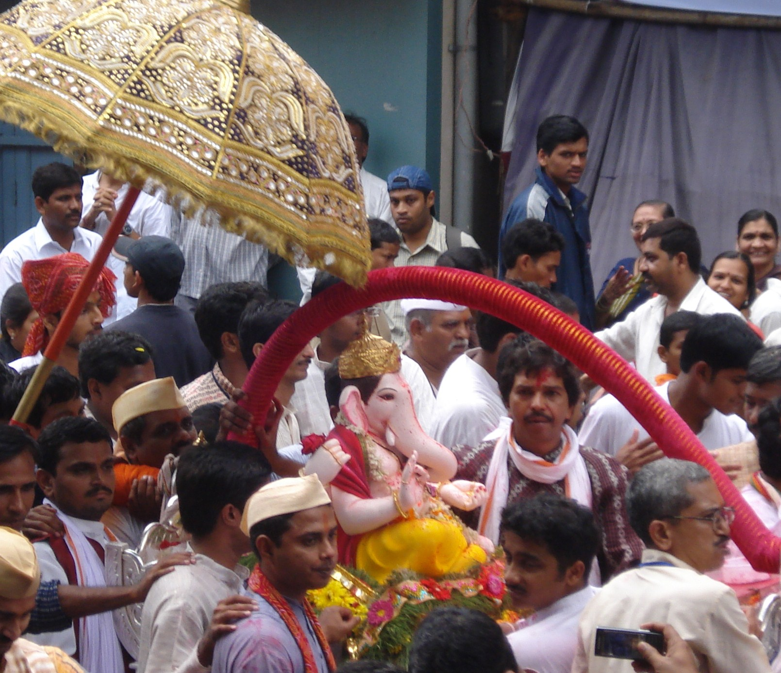 Kasba Ganapati known as gram-daivat (Deity of the city) of Pune. During the Visarjan procession